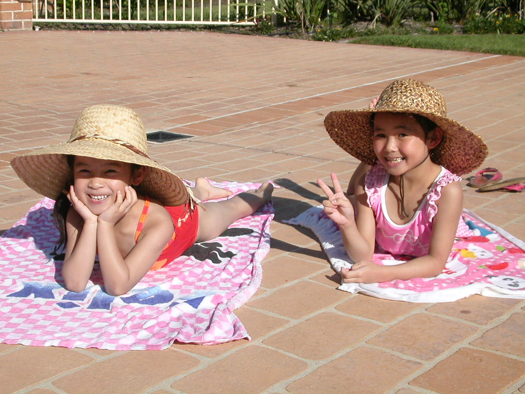 Tanning little girls in Taiwan.DSCN4872